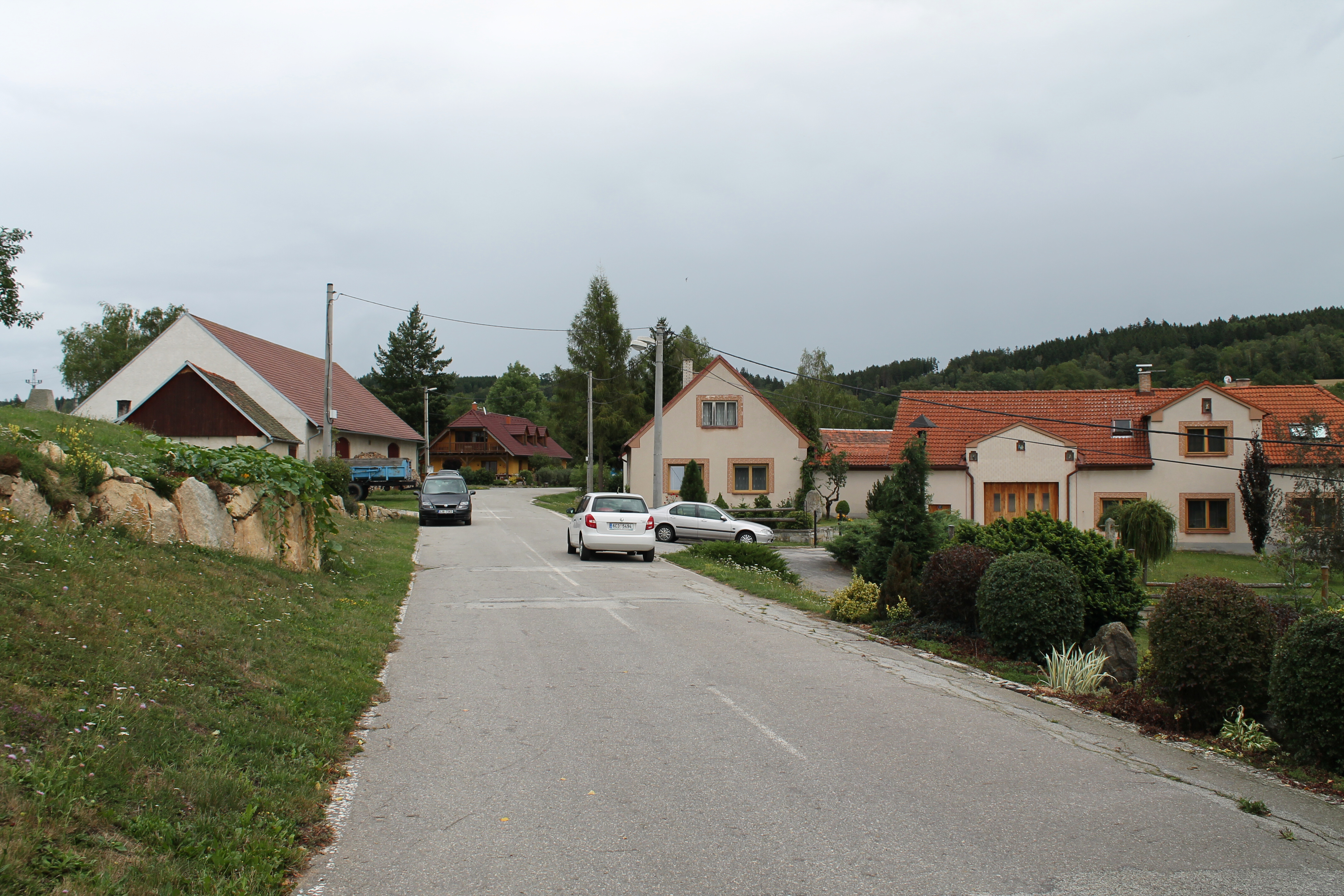 Dolní Dvorce, Dyjice, Jihlava District, Czech Republic